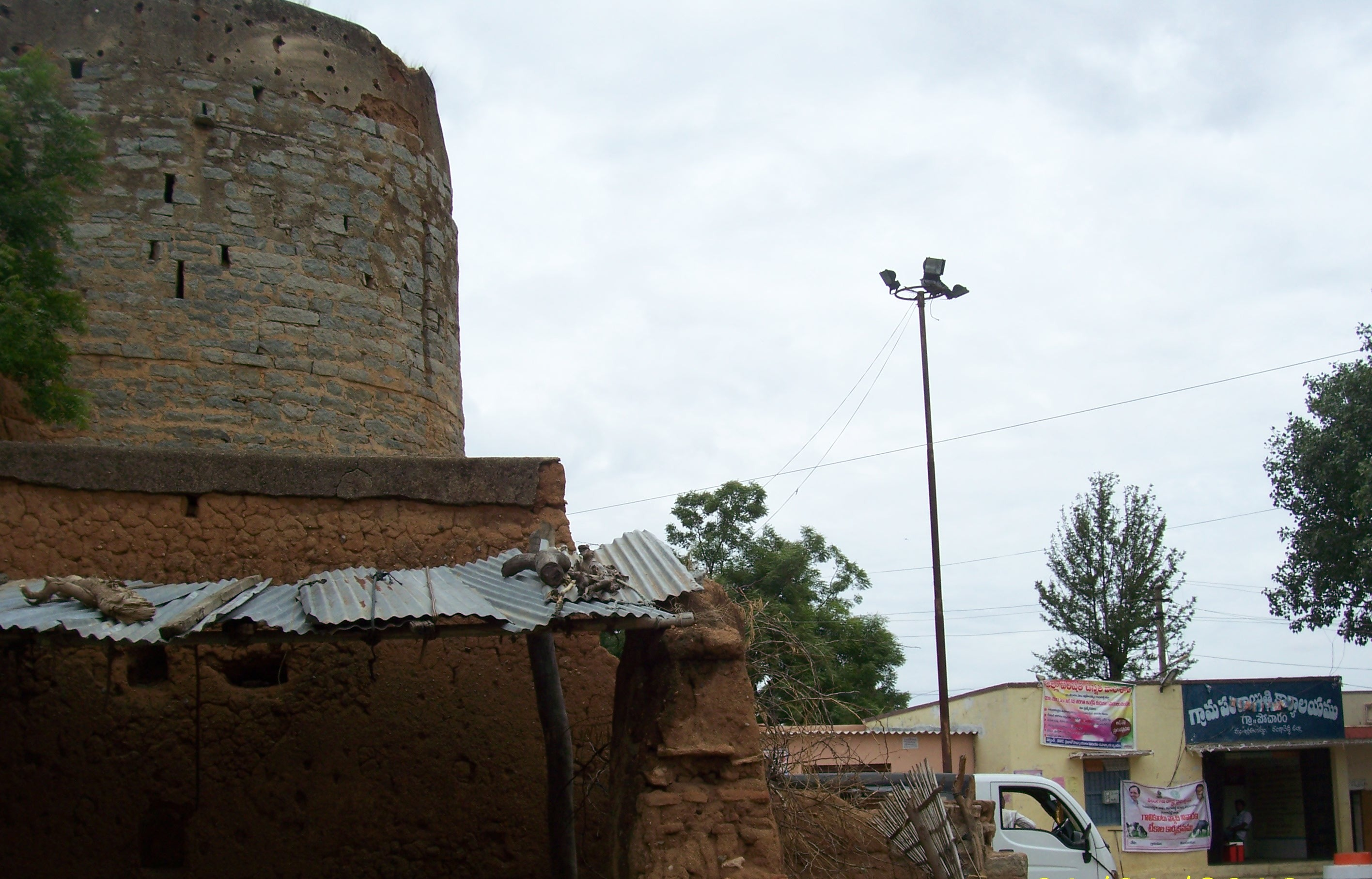 GhaDi at pOchaaaram village